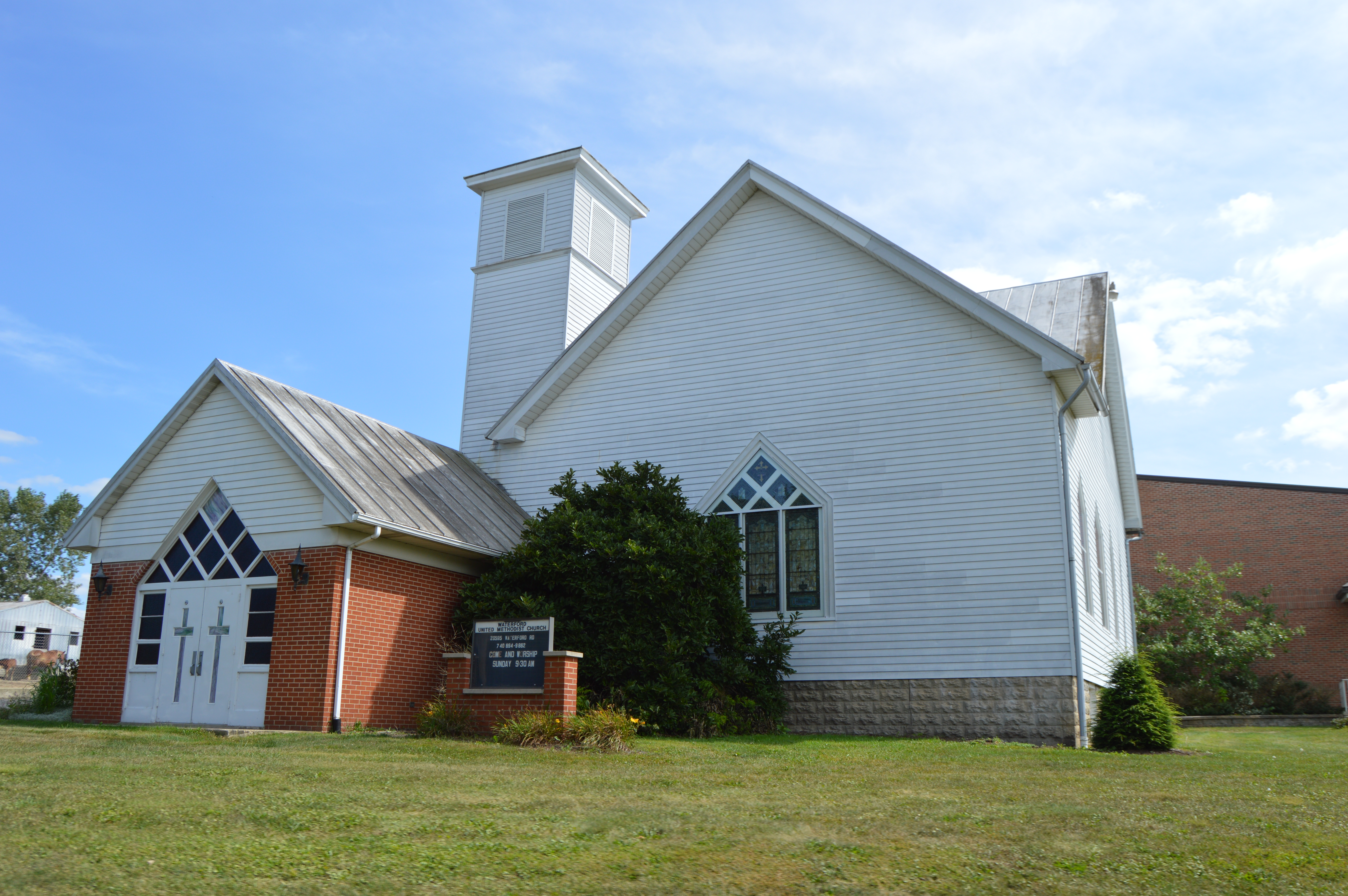 Front of the Waterford United Methodist Church, located at 20595 Waterford Road northwest of Fredericktown in Middlebury Township, Knox County, Ohio, United States.